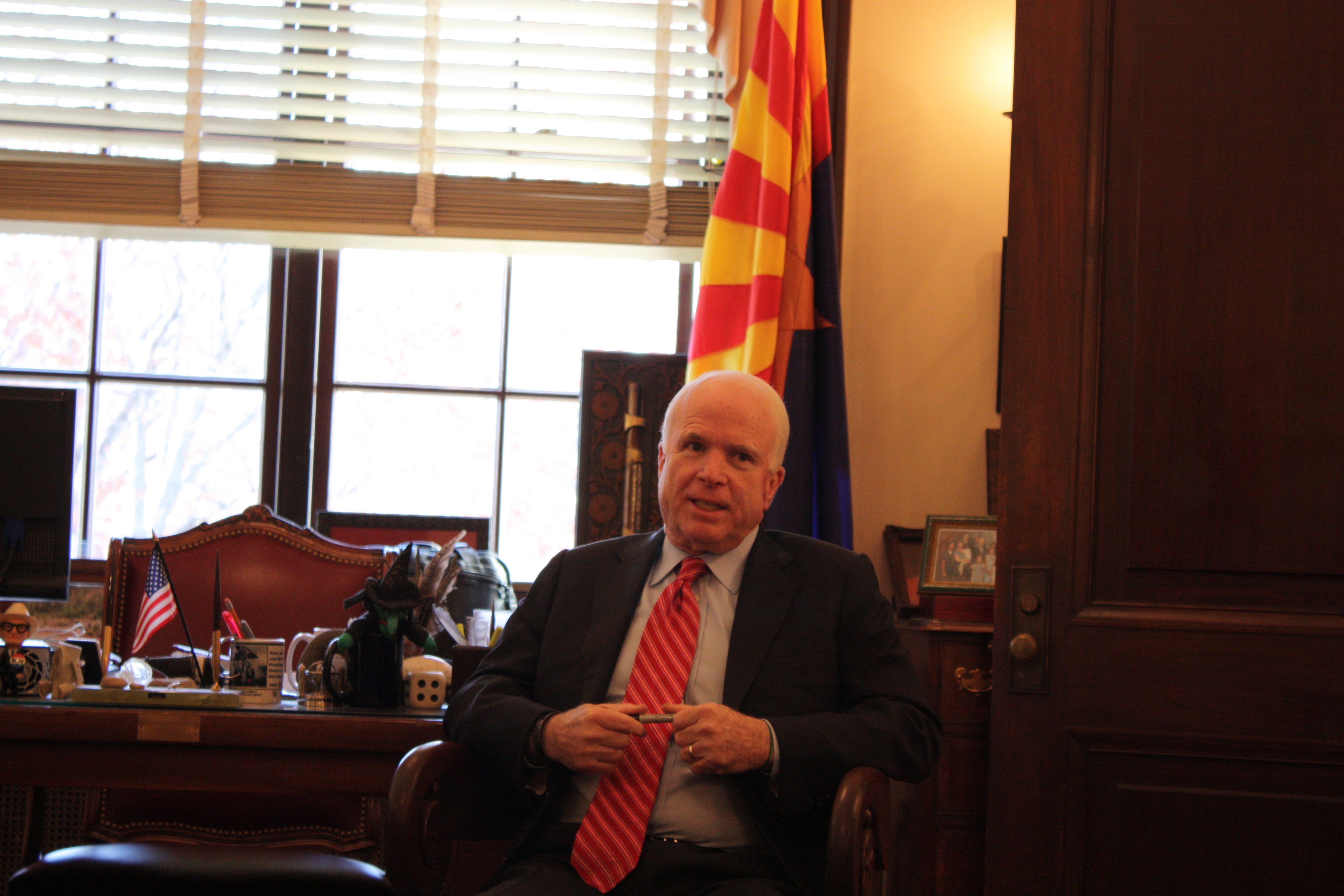 EPP in the USA